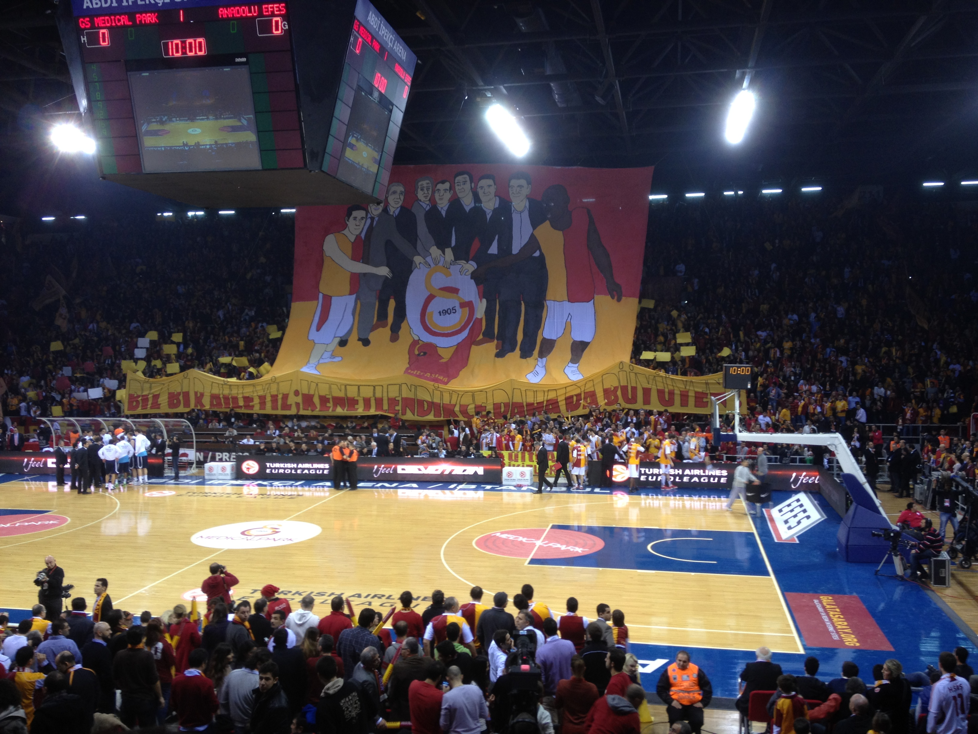 Ultraslan'ın Anadolu Efes Euroleague maçı öncesi hazırladığı kareografi